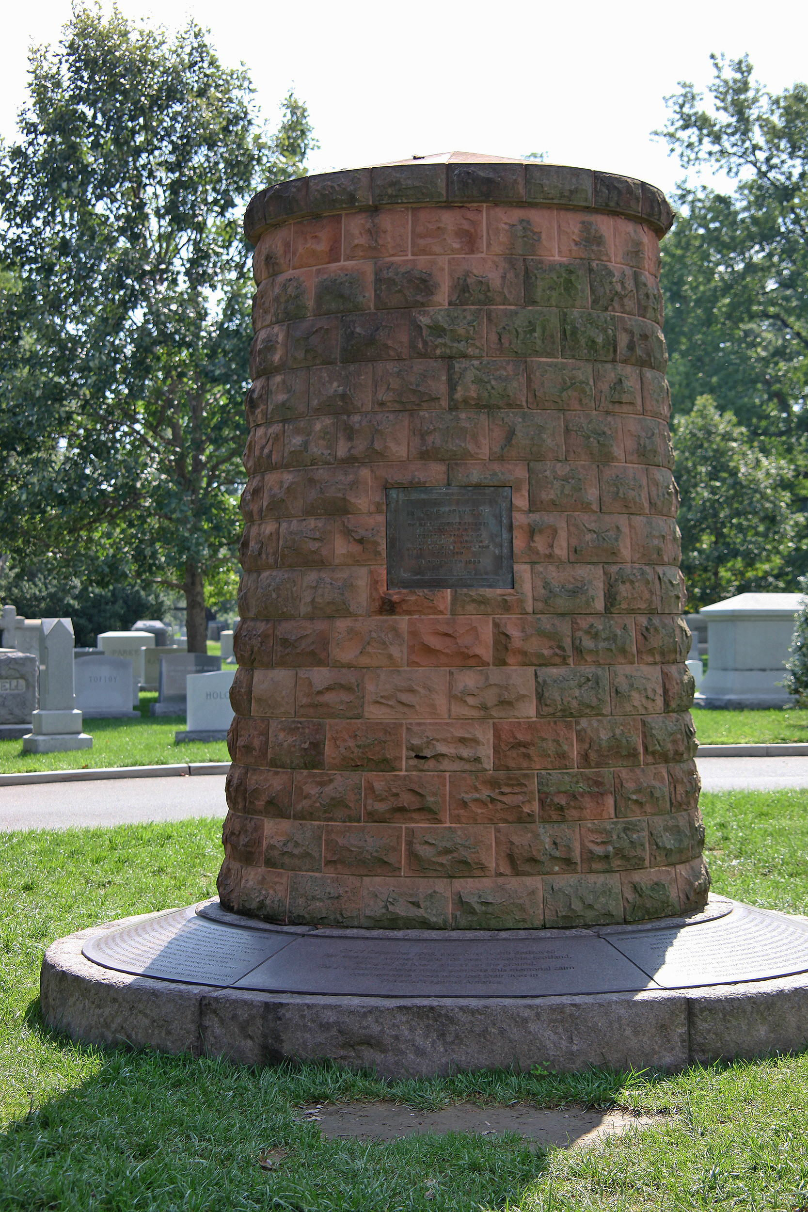 Looking south at the Pan Am Flight 103 Memorial at Section 1 of Arlington National Cemetery in Arlington, Virginia, in the United States. Also known as the "Lockerbie Cairn," the memorial is located in a portion of Section 1 just in front of the cemetery's Old Administration Building. Pan Am Flight 103 was destroyed in flight by a bomb on December 21, 1988, over Lockerbie, Scotland. Libya later admitted that officials of its state security agency planted the bomb in retaliation for various U.S. air strikes against Libya (primarily the 1983 attacks on Tripoli). Eleven of the 270 lives lost were people on the ground. Of the 189 Americans who lost their lives in the attack, 15 were active duty military personnel and 10 were retired military personnel. President Bill Clinton signed legislation in November 1993 permitting the placement of a memorial to the dead at Arlington National Cemetery. The memorial was financed with private donations, and is a gift of the people of Scotland to the people of the United States. The monument is made of 270 blocks of red sandstone quarried from Corsehill Quarry in Annan, Scotland, about eight miles southeast of Lockerbie. The stones from a cairn, a traditional Scottish monument. Carins take many forms. In this case, the stones are mortared together into a tower that slopes slightly inward as it rises. The cairn rests on six dark grey granite stones shaped like wedges of pie. At its base, the cairn is 7 feet across. It is 10 feet, 6 inches high. Around the base of the cairn, attached to the granite base, are six bronze plaques listing the names of the dead. On the north face of the cairn midway up the face is a bronze dedicatory plaque. The monument was dedicated by President Clinton on November 3, 1995.